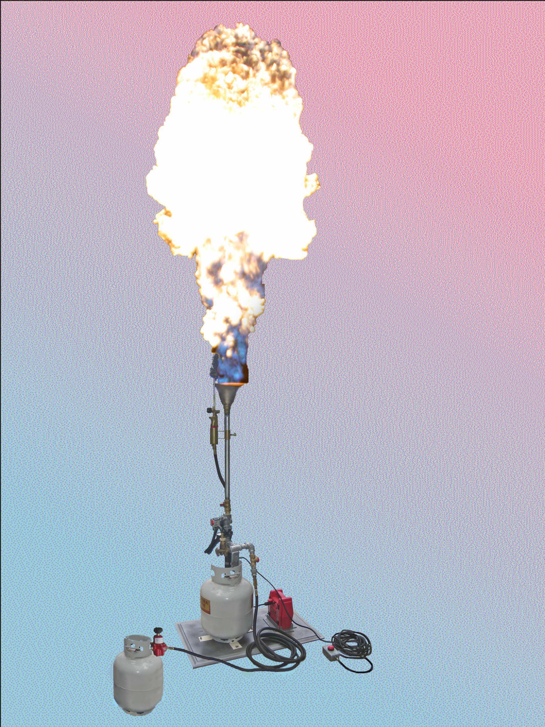 Fire Poofer Flame Effect Device